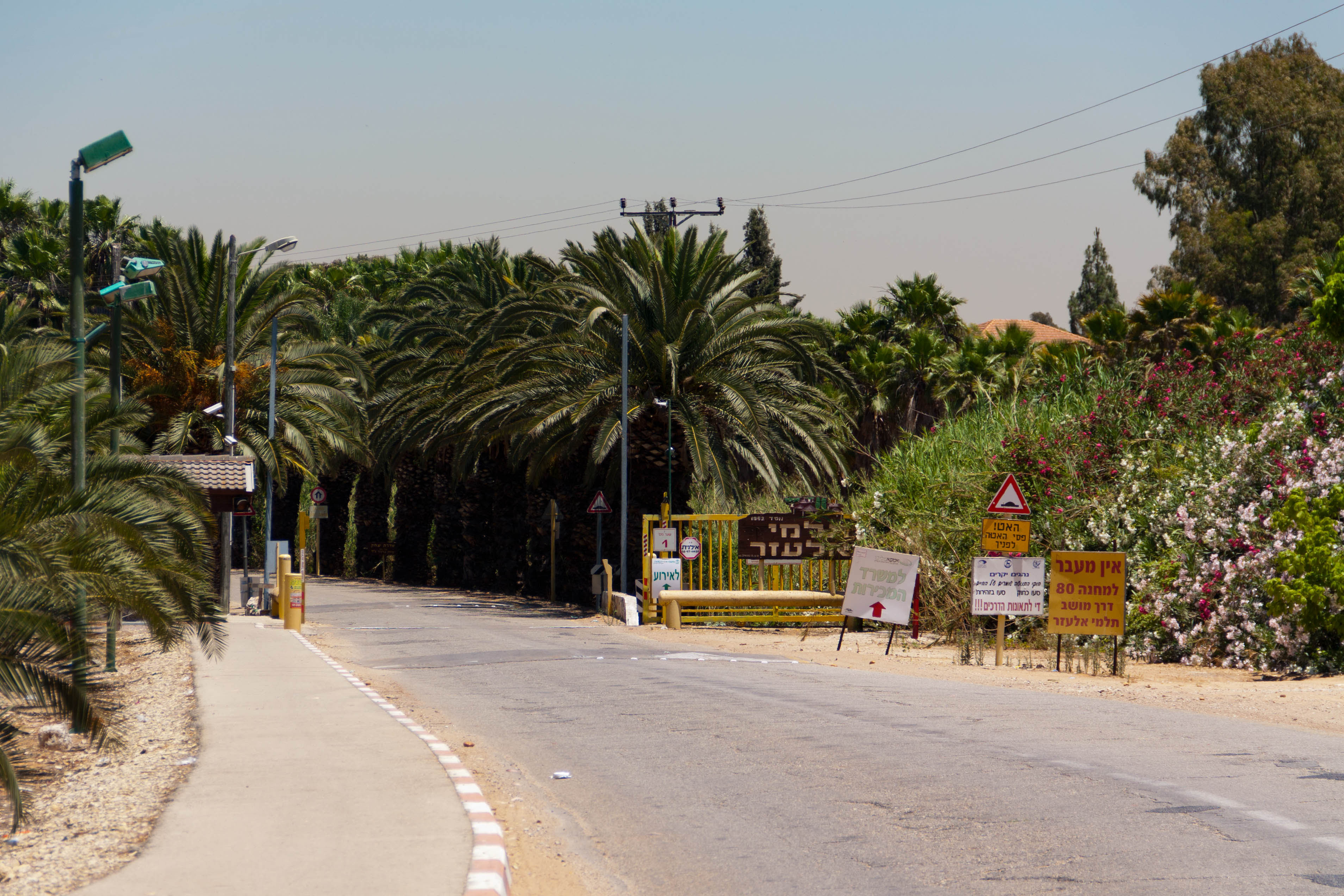 Entrance to Talmei Elazaer